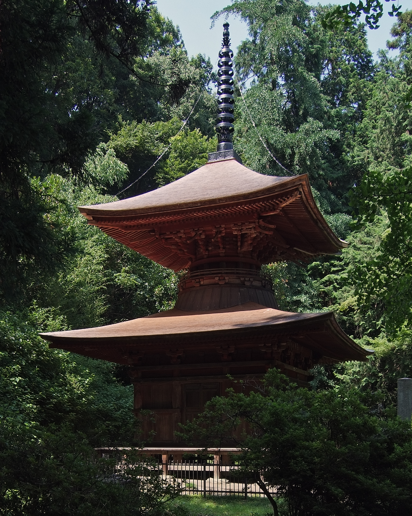 Kanasana Jinjya Tahōtō, at Kamikawa Saitama Japan, built in 1534.